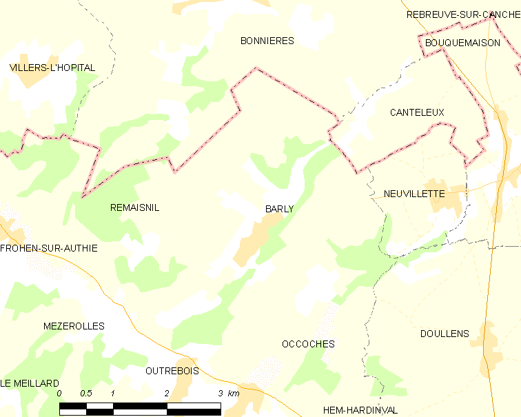 Map of French municipality Barly